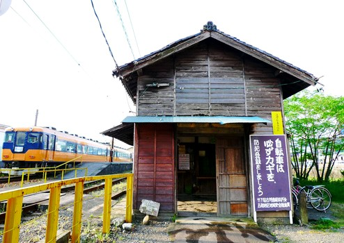 Goka Station on the Oigawa Railroad